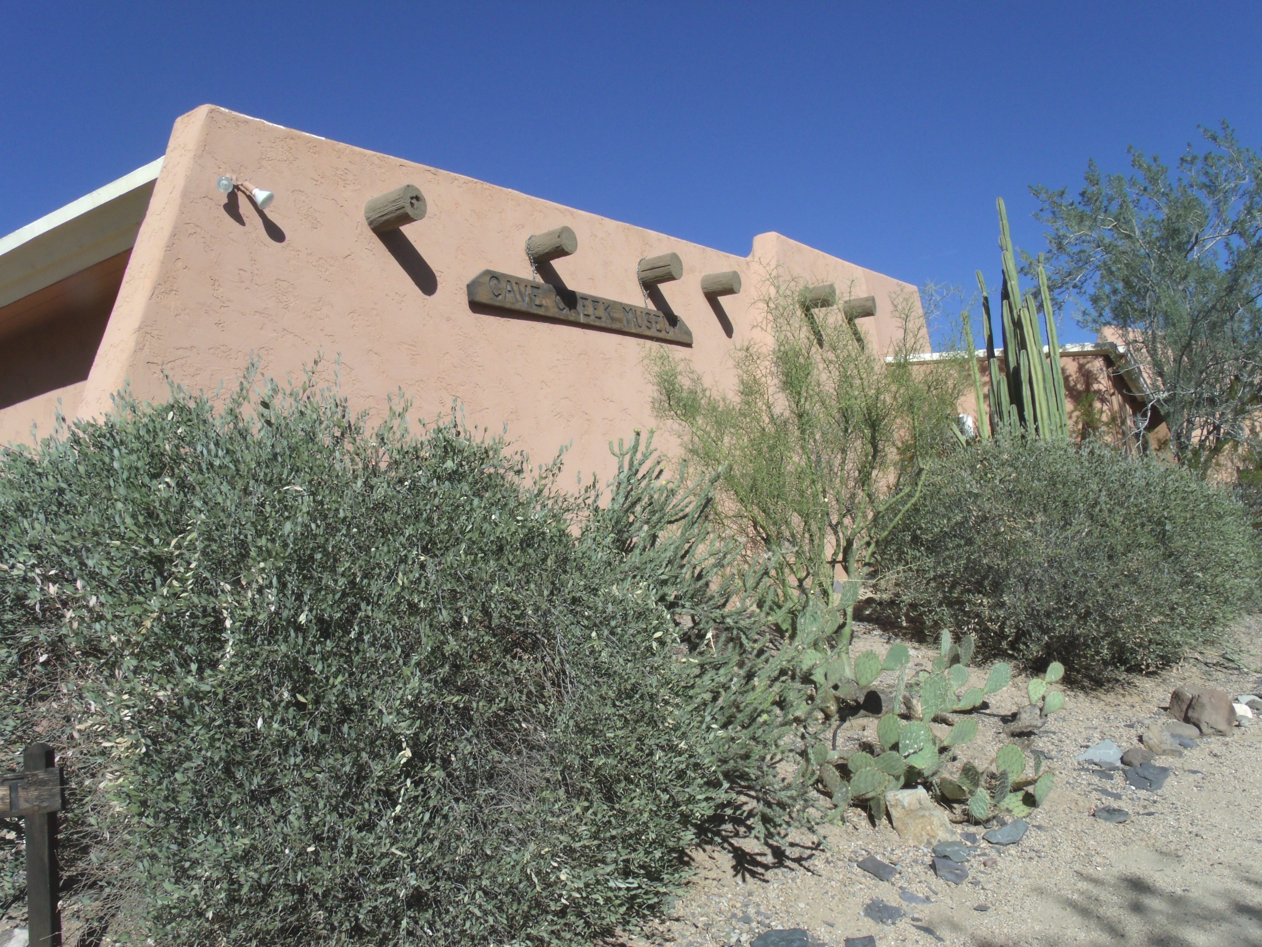 The Cave Creek Museum located at 6140 E. Skyline Dr. in Cave Creek Arizona. The museum opened its doors in 1970 by the historical society. The society itself was established in 1968. Among its outside exhibits are Tubercular Cabin , listed in the National Register of Historic Places, the First Church of Cave Creek and the Golden Reef Stamp Mill .